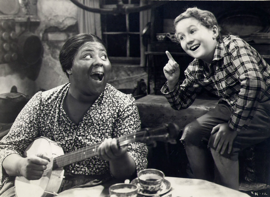 Still with Louise Beavers and Bobby Breen from the American film Rainbow on the River (1936).